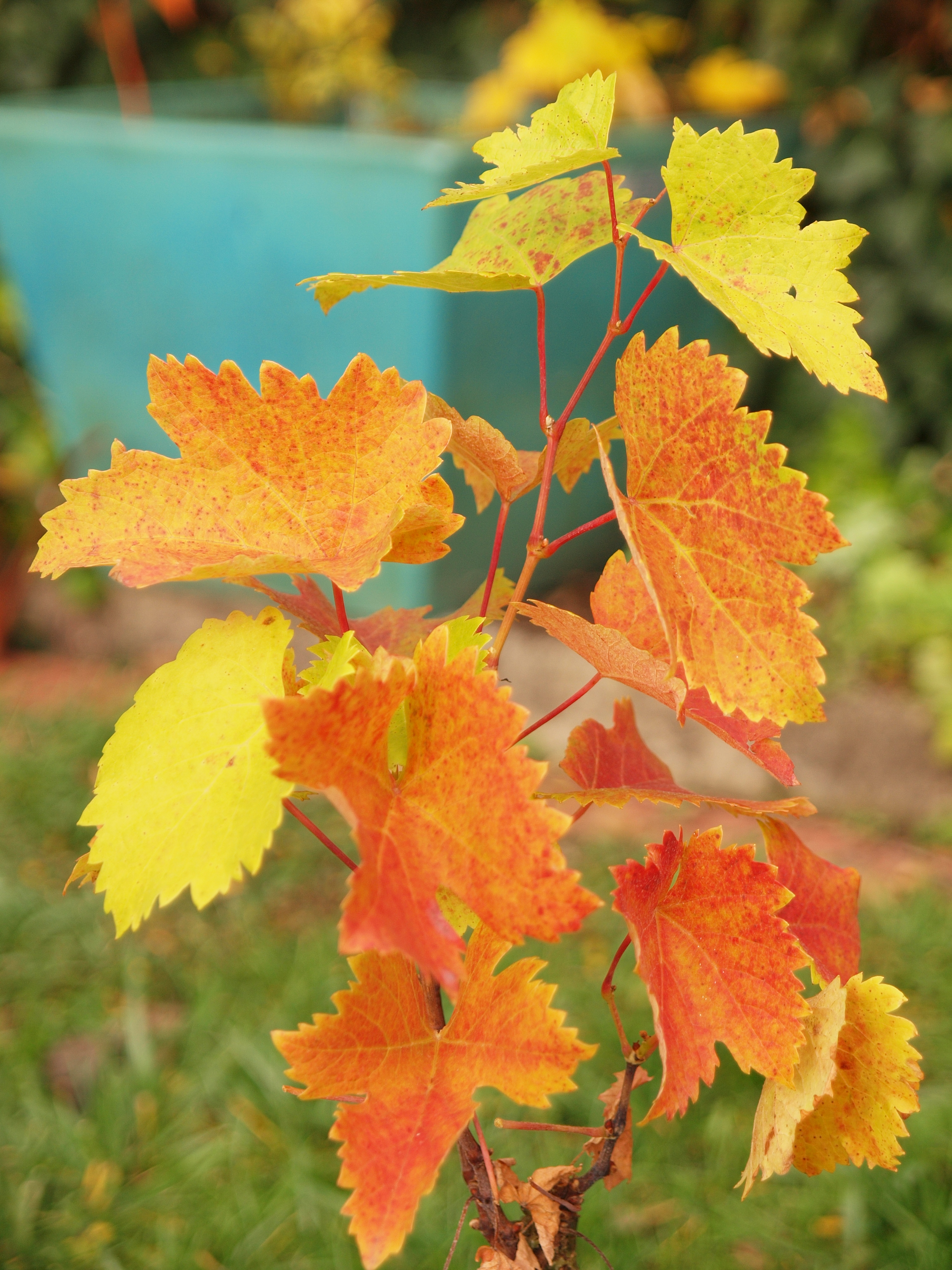 Prokupac wine variety leaf